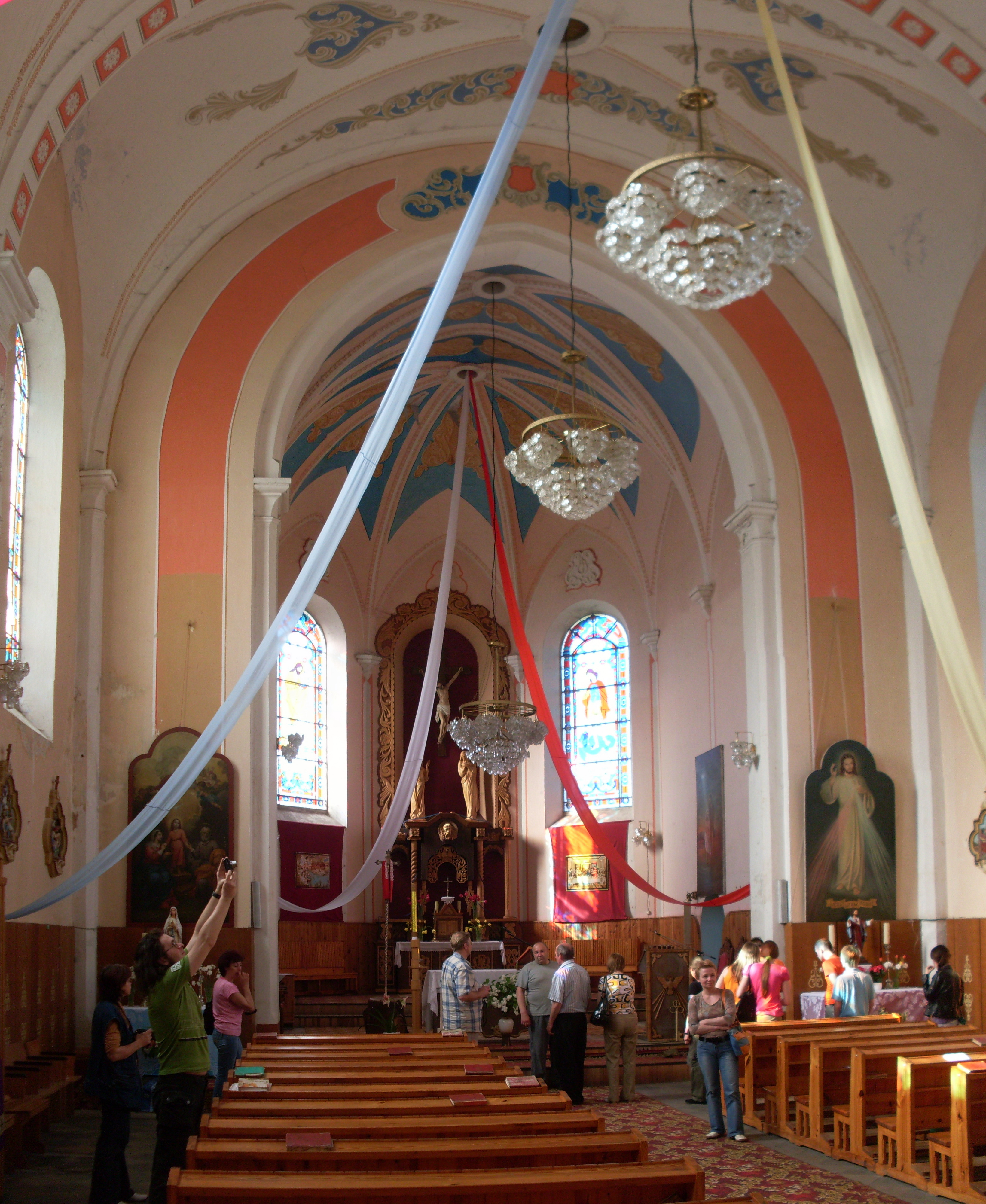 Беларуская (тарашкевіца): Касьцёл. в. Опса This is a photo of Belarusian heritage monument. Reference number: 213Г000207 ( WLM)